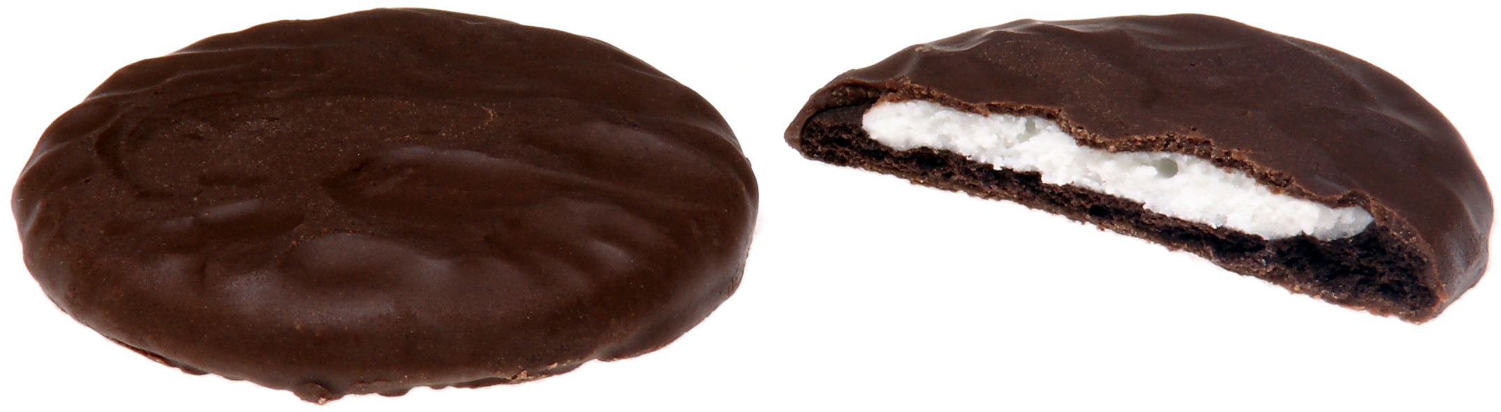 Fudge Cremes Oreos, basically half a regular Oreo covered in fudge. Pretty good, actually.